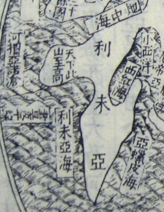 Sancai Tuhui (Africa)